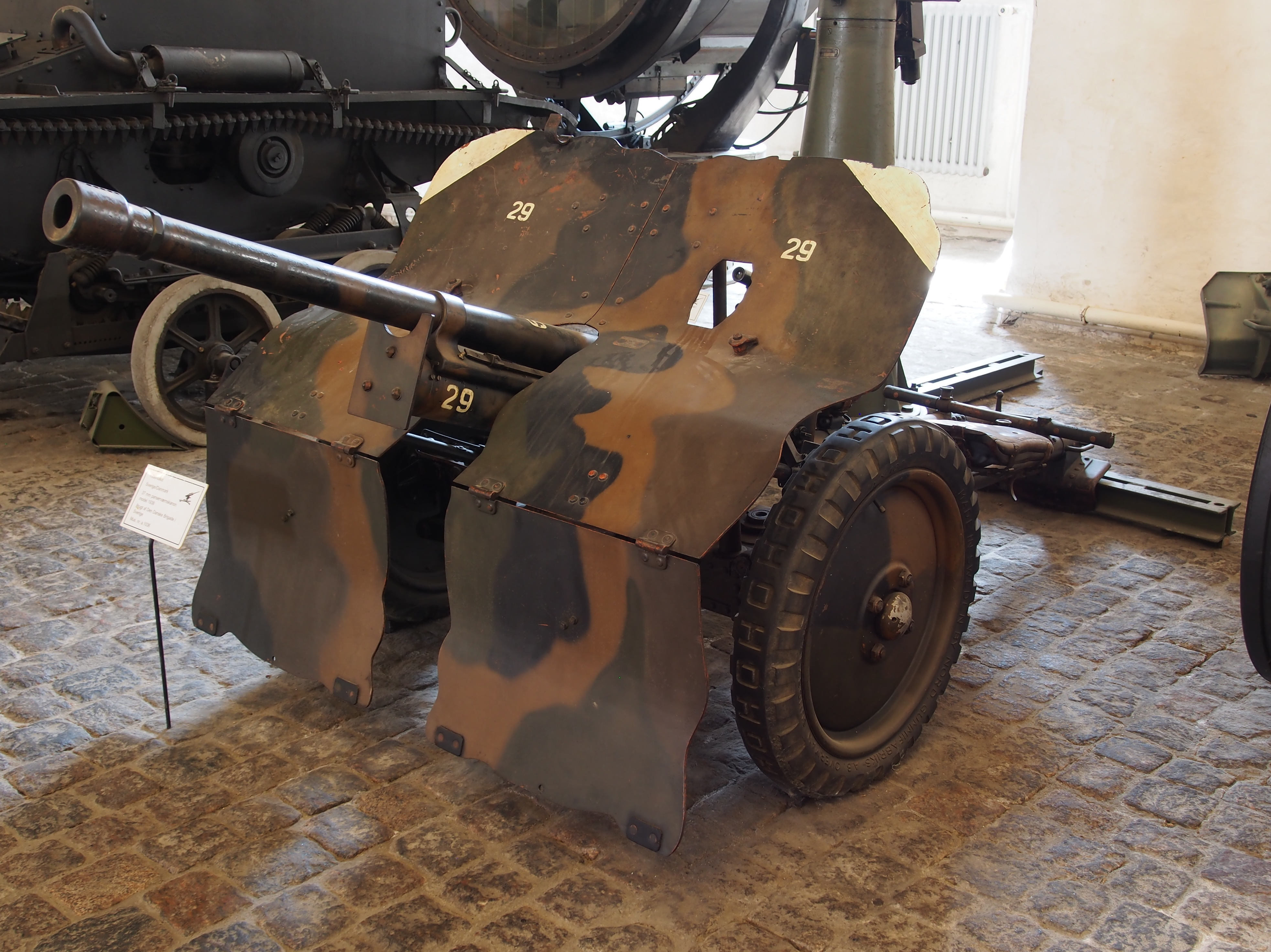 Photographed at the Royal Danish Arsenal Museum (Copenhagen)